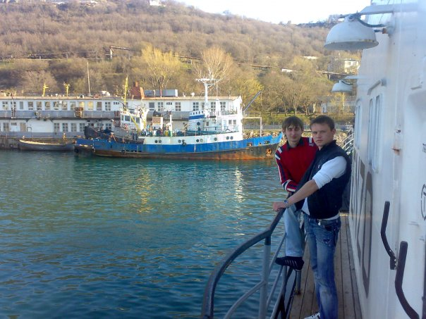 BCHS "Experiment" in Inkerman